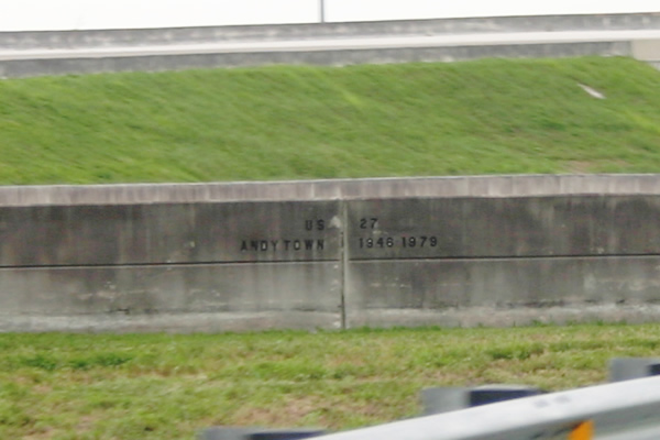 A tribute to Andytown, Florida; this is inscribed on the top of the Interstate 75 (eastbound) bridge abutment spanning U.S. Route 27. These overpasses effectively ended Andytown.